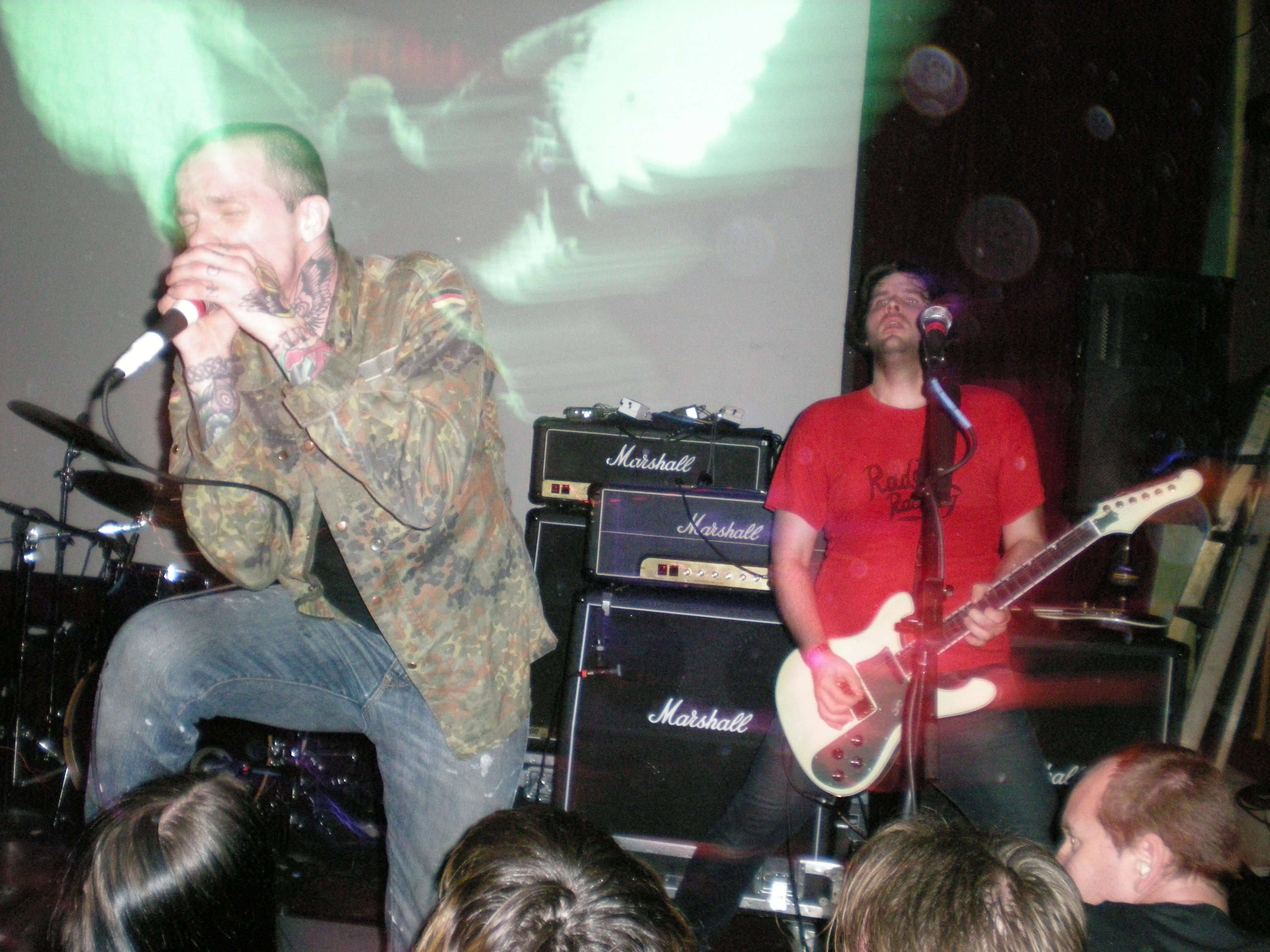 The metalcore band Converge playing at Neumo's in Seattle, Washington.